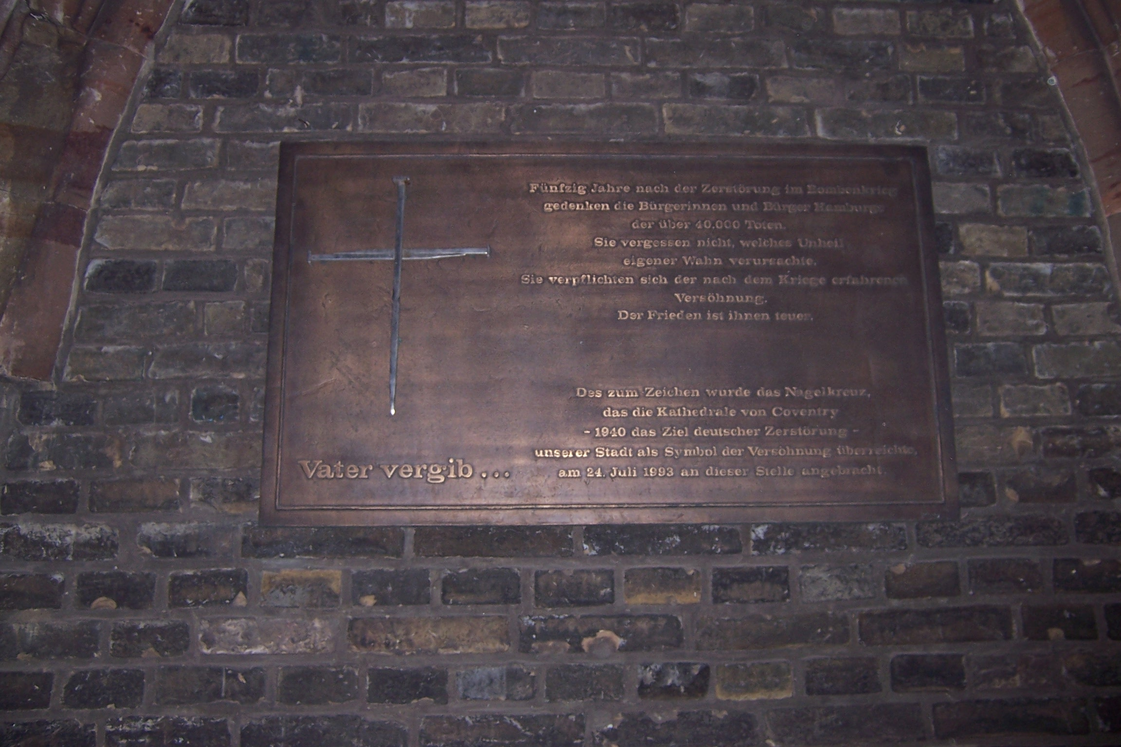 Cross of Nails at St. Nicolai Hamburg This is a photograph of an architectural monument.